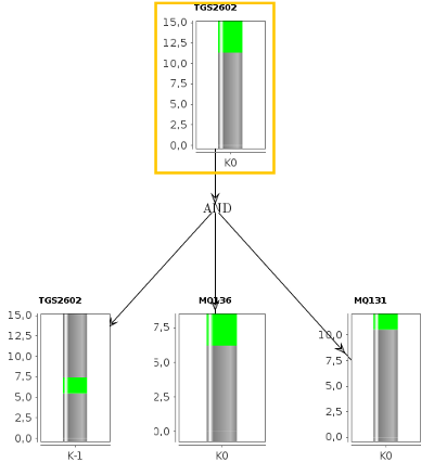 Algorithm of a gas mixture using Holsys One